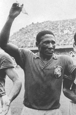 Brazilian footballers Djalma Santos after winning the 1958 World Cup.